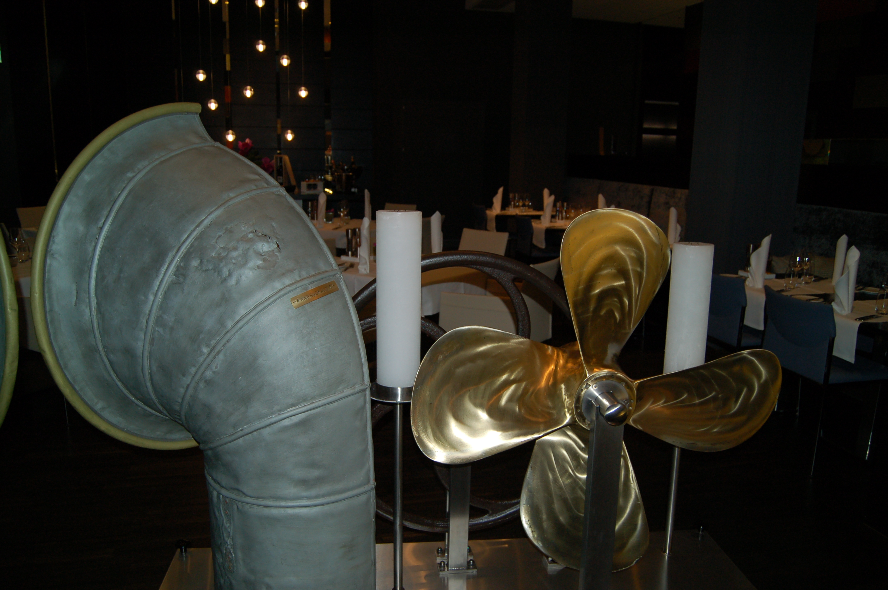 Decoration in the Equinox restaurant to convey the urban lifestyle and in hinting on the industrial history of the area